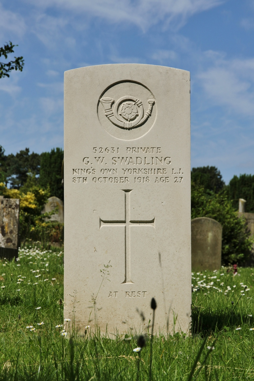 Commonwealth War Graves Commission headstone in Rose Hill Cemetery, Cowley, Oxfordshire to Pte G Swadling, King's Own Yorks Light Infantry, who died in 1918 aged 27